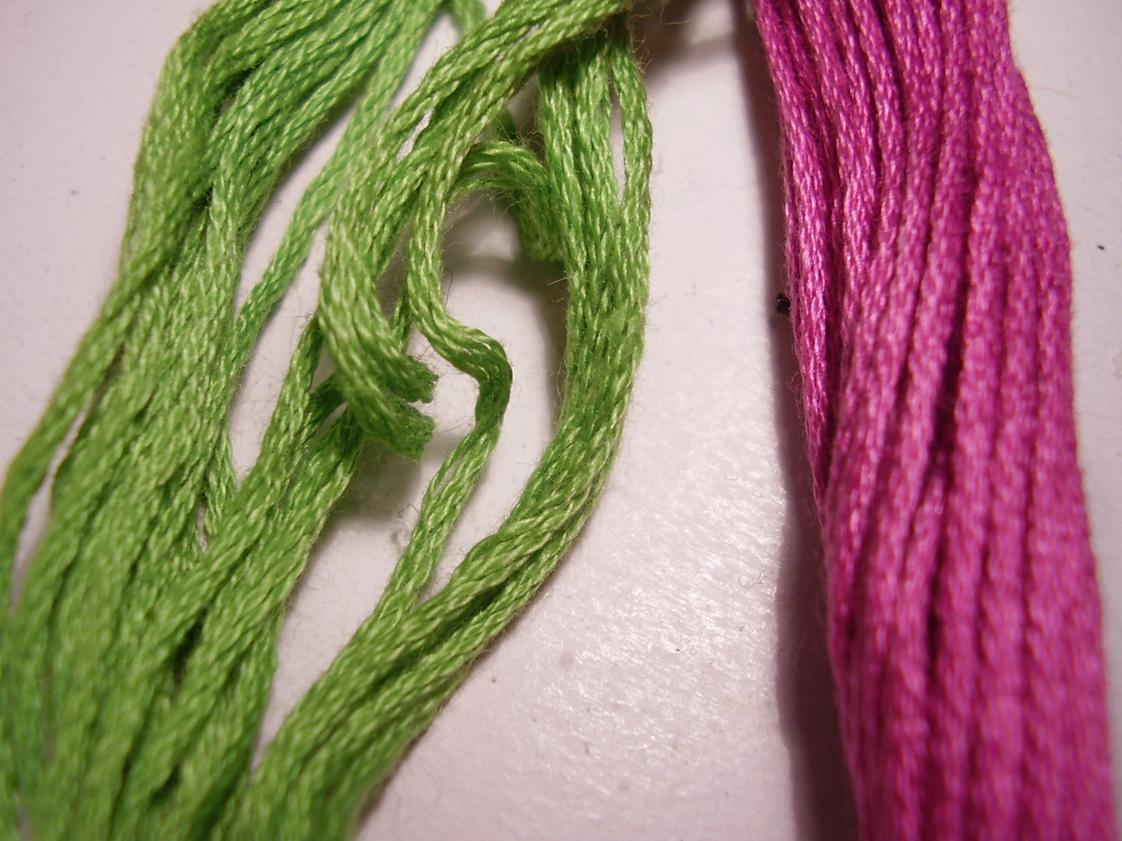 Mouliné yarn. Attention: this is no mouliné. Mouliné has two colours